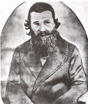 A photograph of rabbi M. Schick for the Hungarian Jewish Congress, taken in 1868, probably in December.